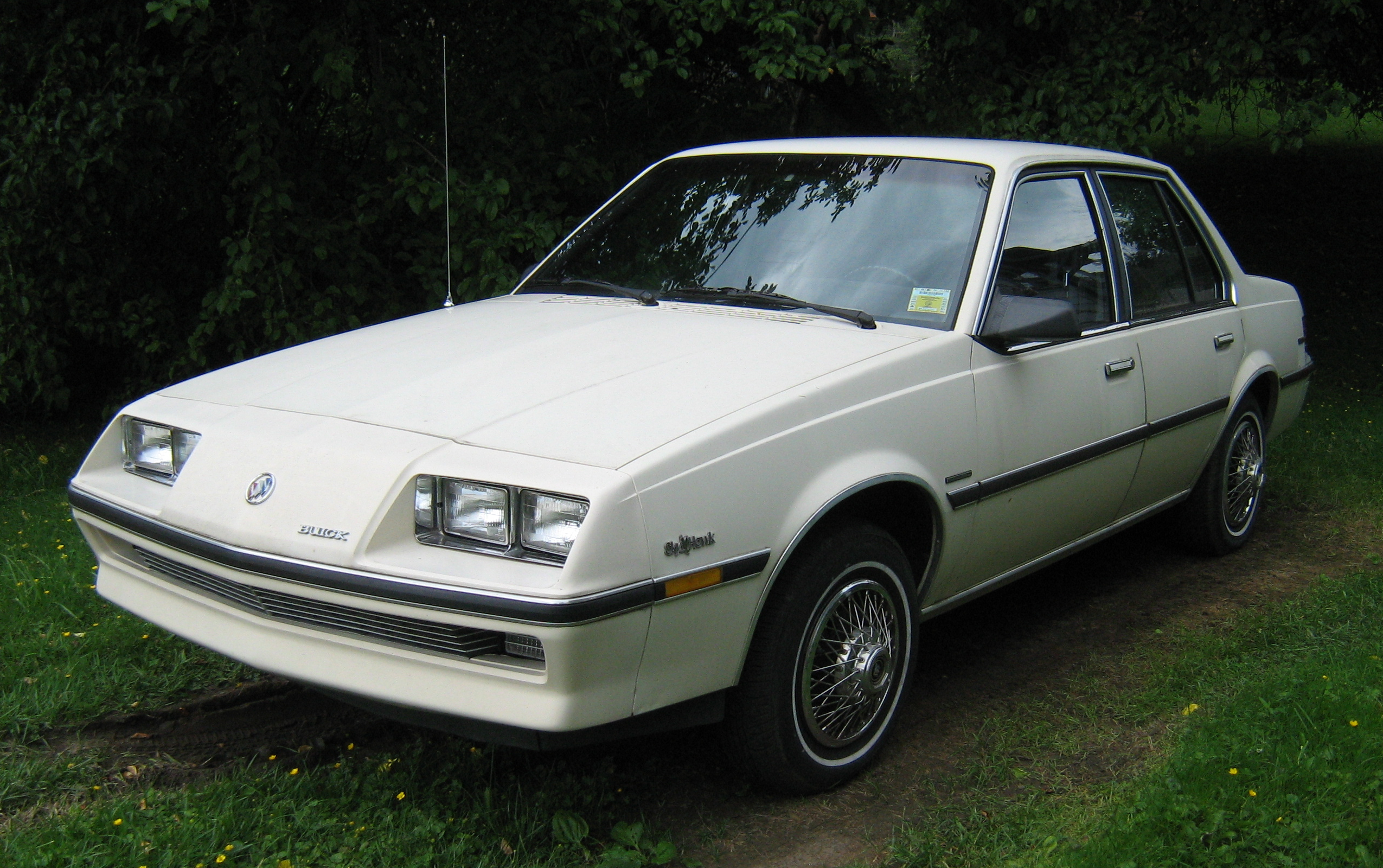 Buick Skyhawk - four-door sedan finished in white.